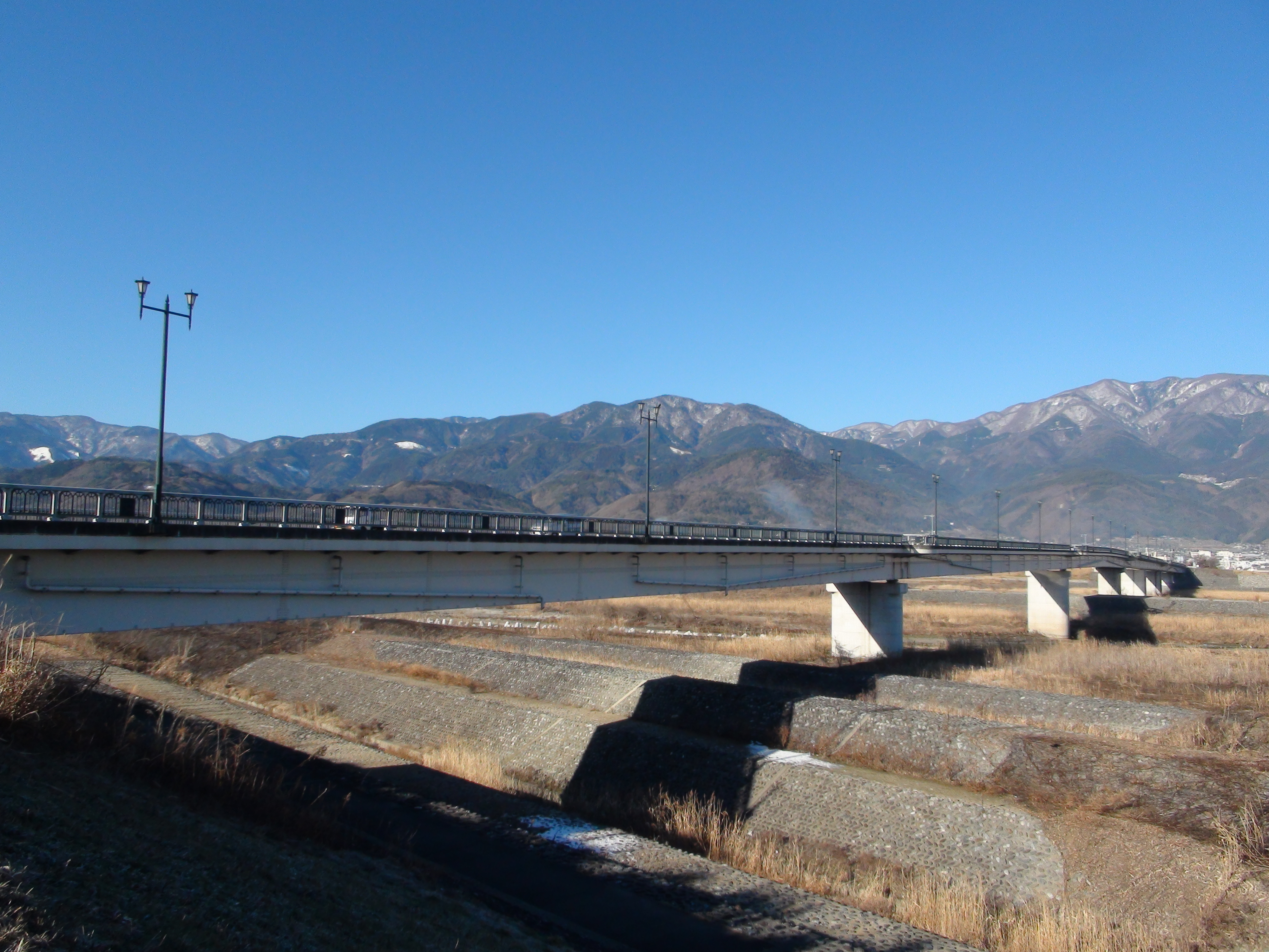 From the eastern side of Fujikawaohashi bridge, heading West